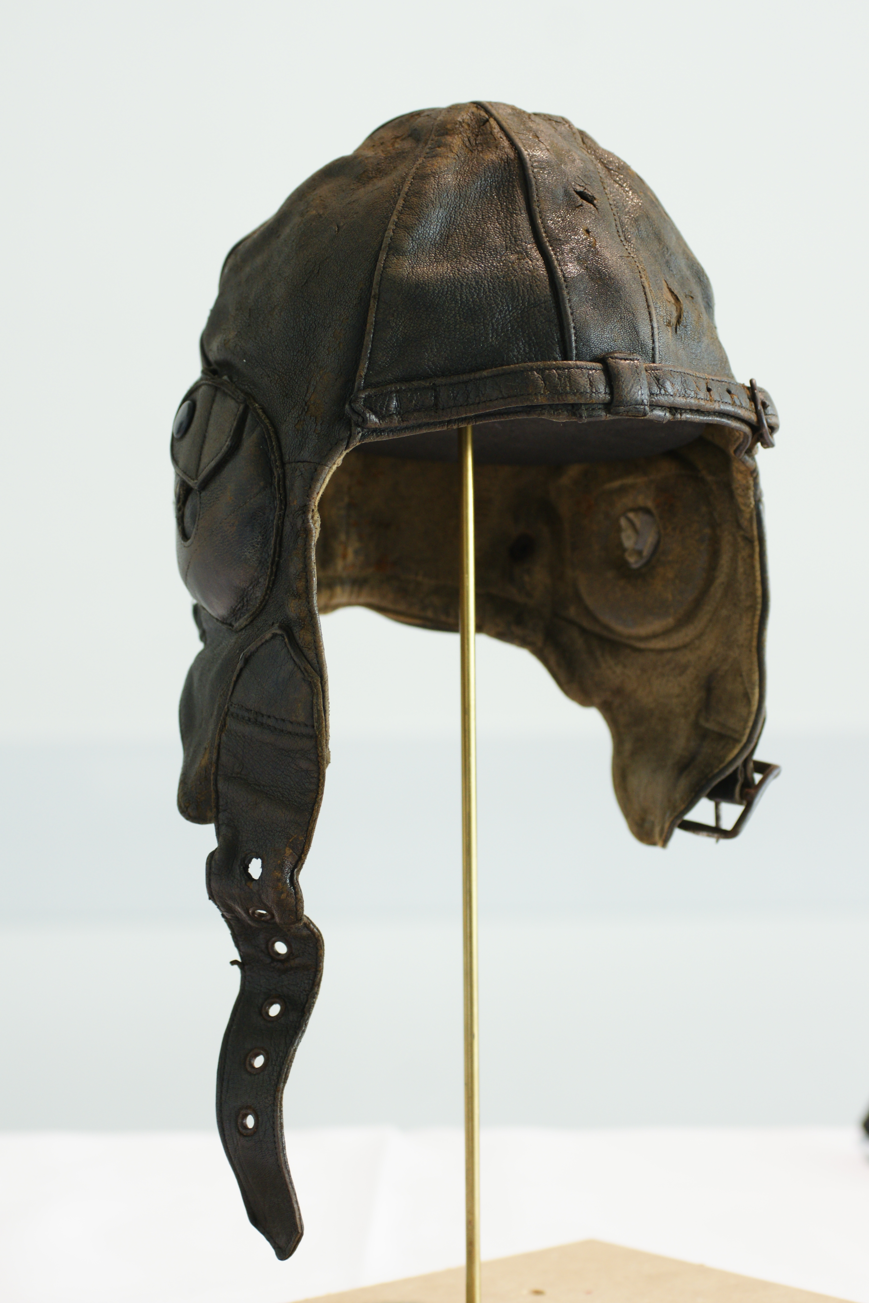 Images from ThinkTank by Sasha Taylor